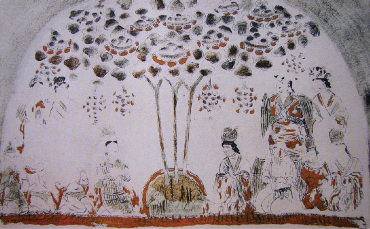 Remnant of Uyghur Manichaean wall painting, Realm of Light Awaits the Righteous or Worship of the Tree of Life in the Realm of Light, at cave 38 of Bezeklik Caves.